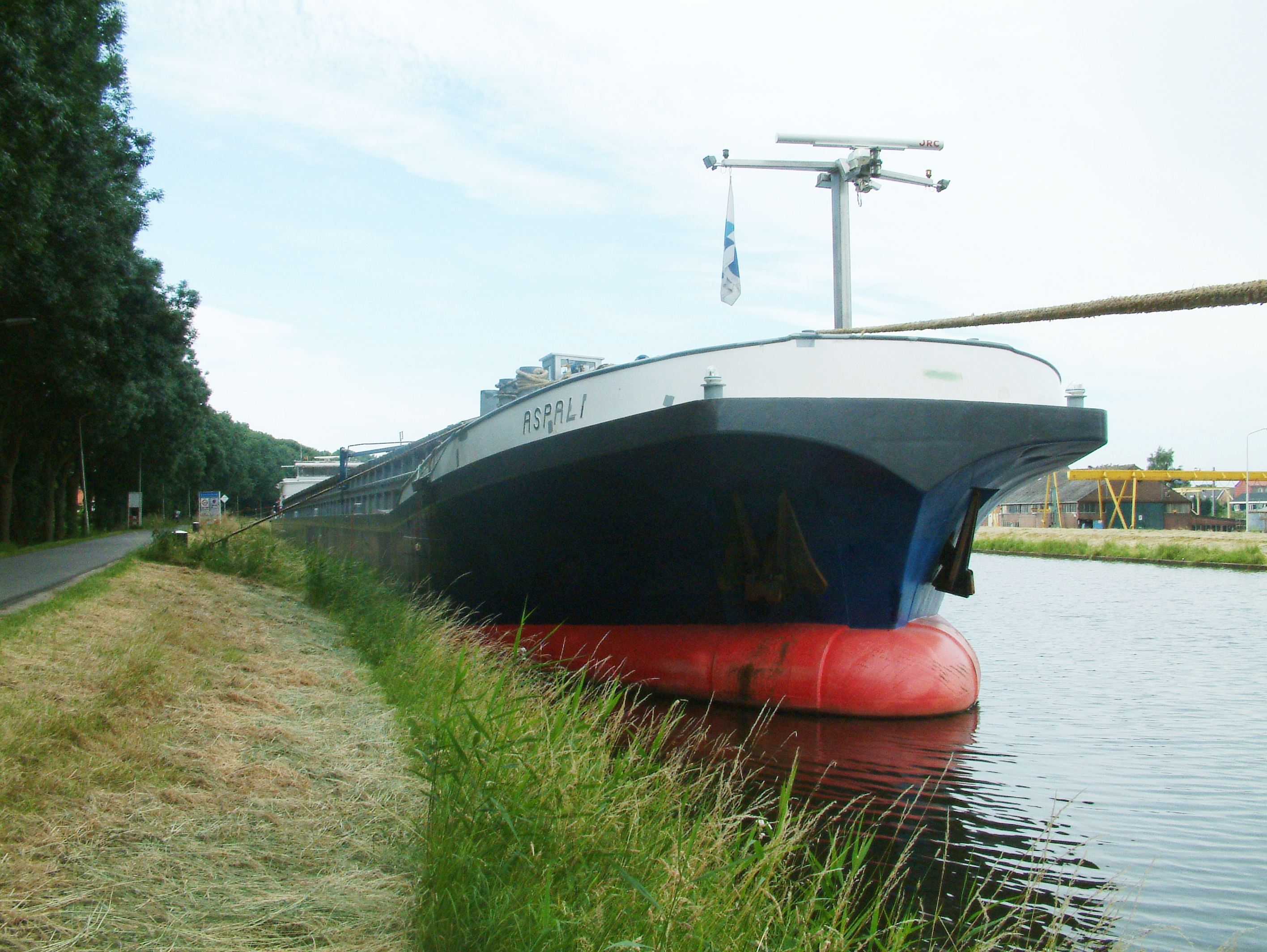 Inland freighter mv Aspali with bulb